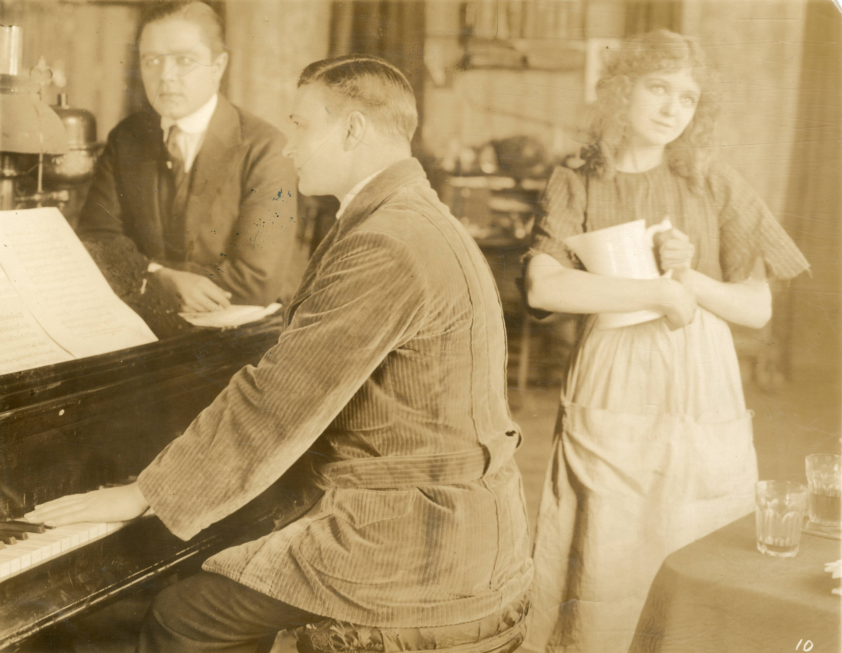 A scene from the American comedy drama film Merely Mary Ann (1916). Includes actress Vivian Martin, who once lived in Bellevue, WA. Date stamped Feb. 10, 1916. Subjects: motion pictures, actresses